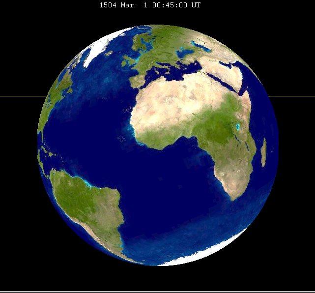 March 1504_lunar_eclipse view of earth The orientation of the earth as viewed from the center of the moon during greatest eclipse. thumb